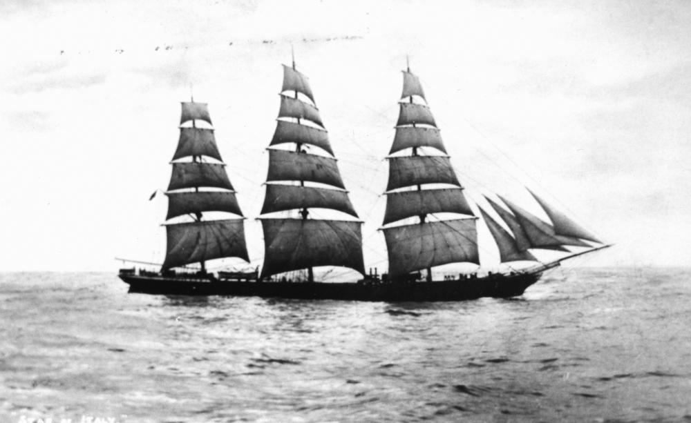 Star of Italy (ship) Ship: Star of Italy Rig: Three-masted ship Hull: Iron Launched: 1877 Out of service: 1927 Builder: Harland & Wolff, Belfast Dimensions: 251.5’ x 38.2’ x 22.9’ Tonnage: 1784 tons [1] ↑ Dyal, Donald H (2008). Alaska Packers Association: Narrative. .pdf file. Texas Tech University Digital Collections. Retrieved on March 15, 2011.